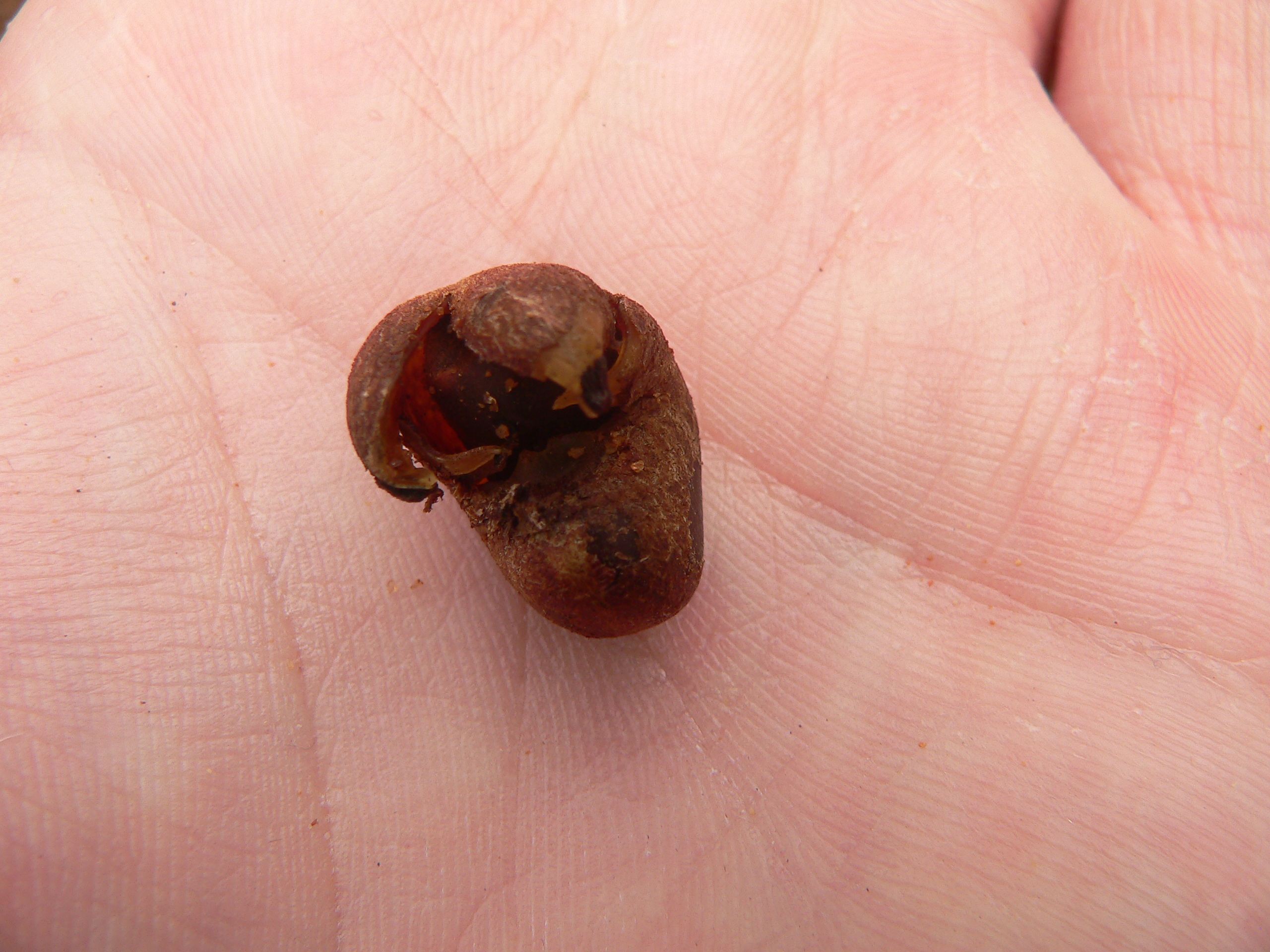 Adansonia rubrostipa (Malvaceae), seed, spiny forest at Mangily, western Madagascar